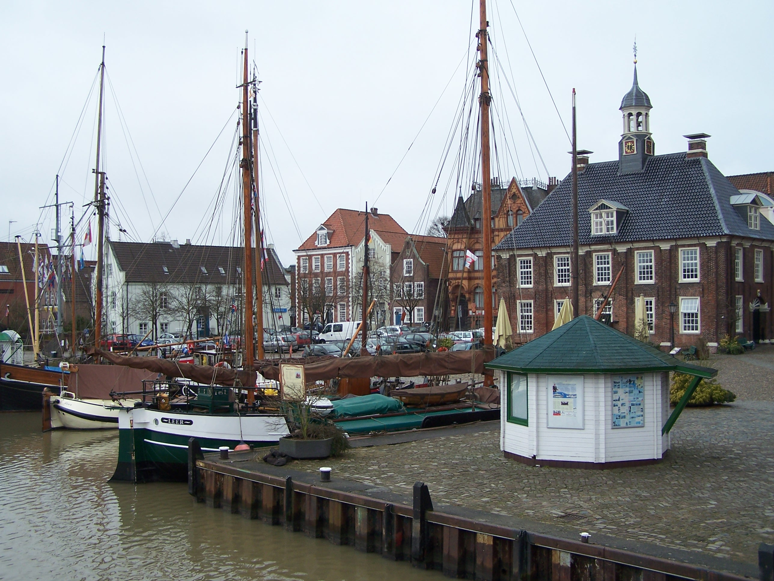 Harbour in Leer, Germany